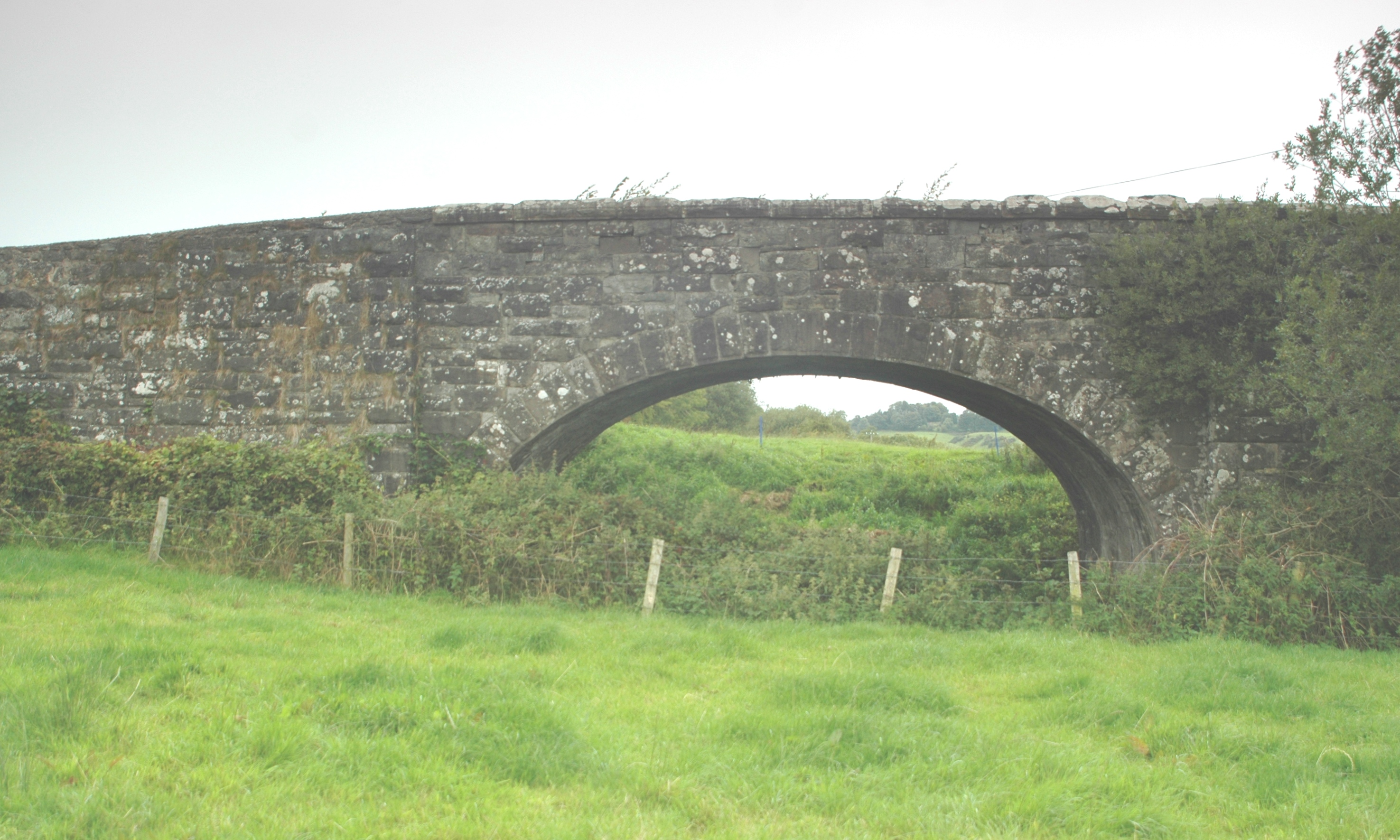 Road bridge over filled-in cutting of former Portadown, Dungannon and Omagh Junction Railway, somewhere between Dungannon and Pomeroy, Co. Tyrone, N. Ireland. Built 1858-61.